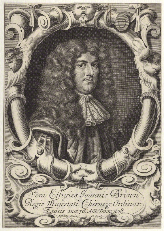 Portrait of John Browne (1642–1702), English surgeon and author.